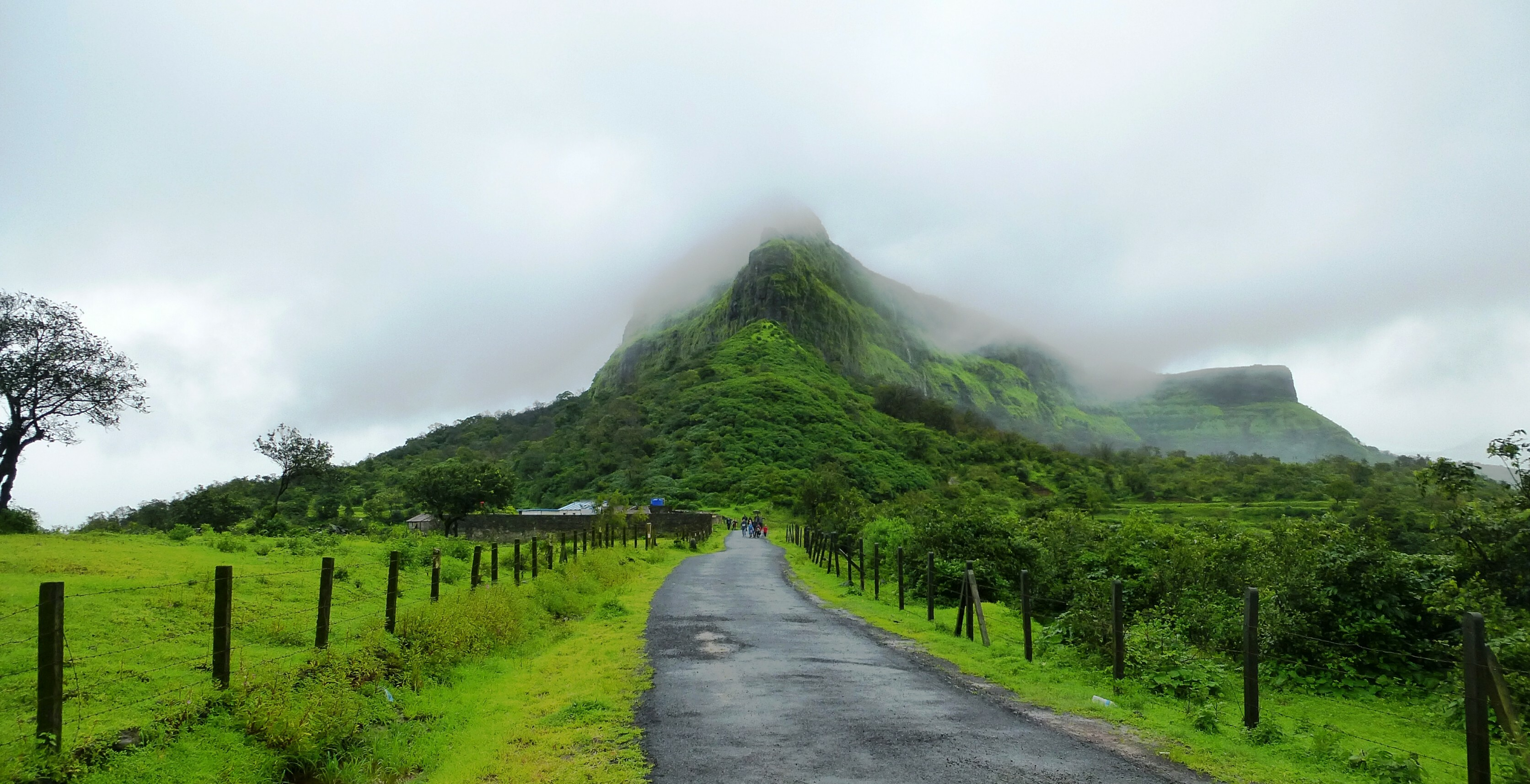 The photo of the giant fort Visapur clicked in monsoon while returning from Lohagad. Photo clicked on 25/07/2014.